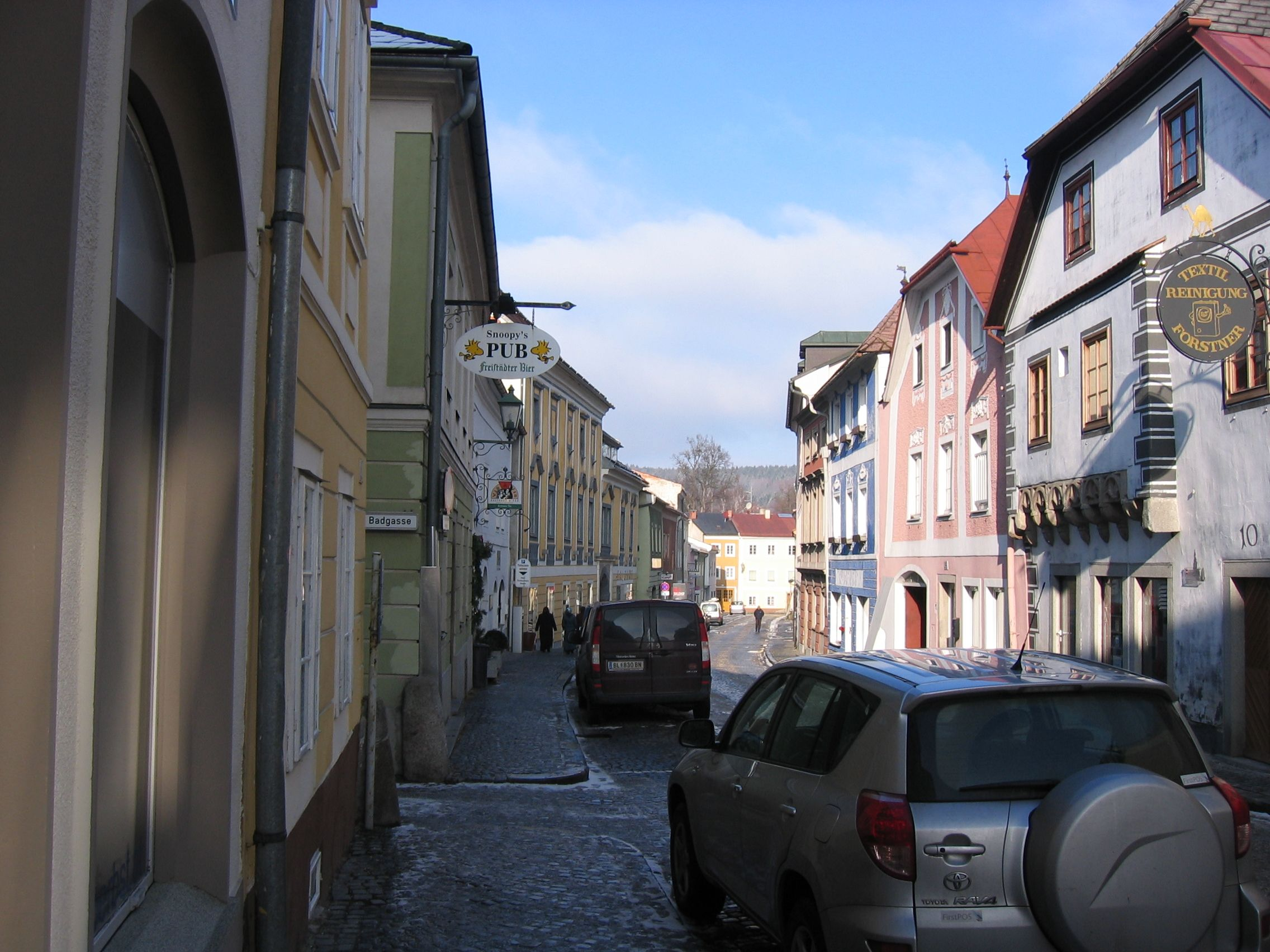 Salzgasse in Freistadt